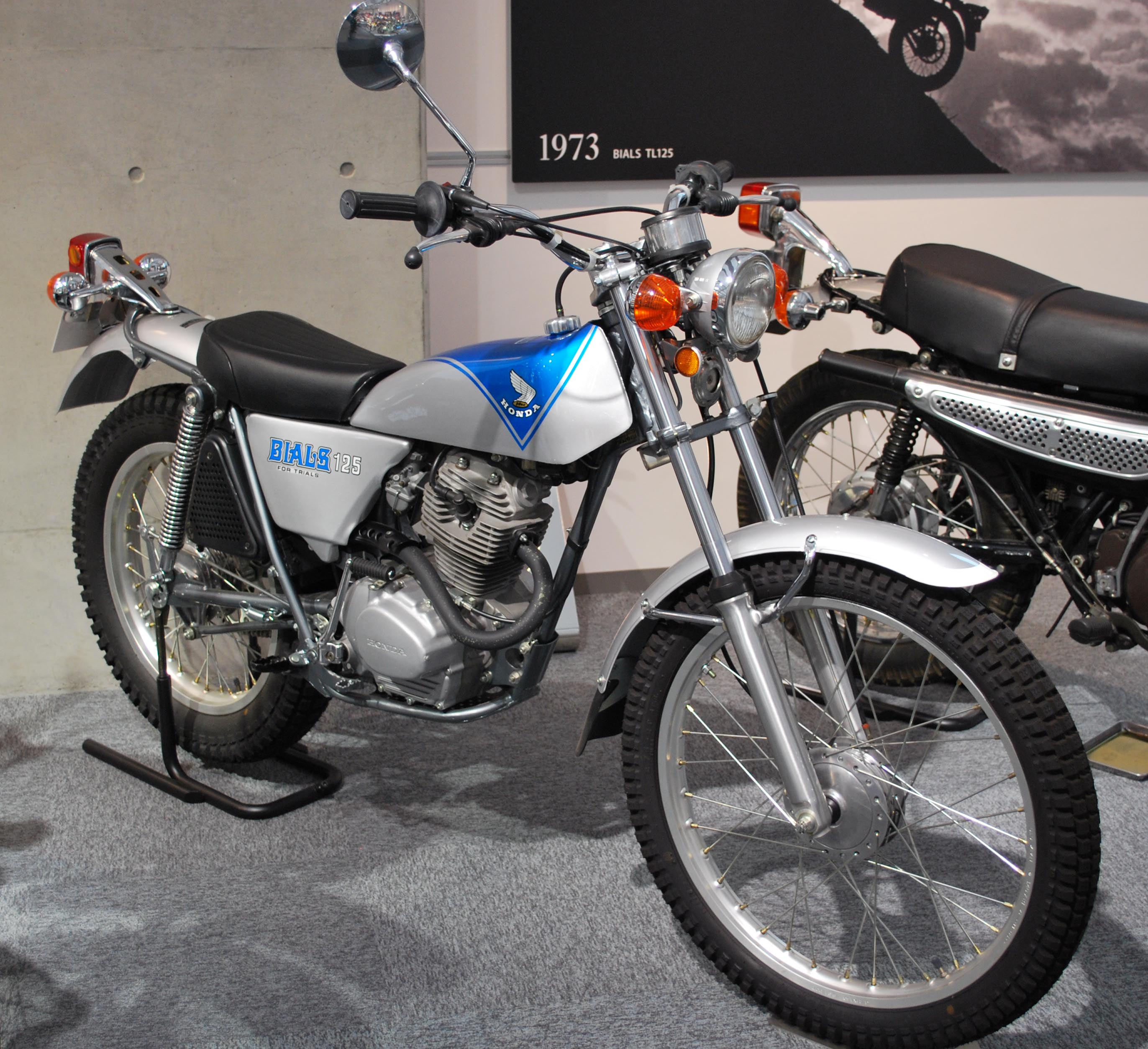 Honda TL125 (1973)